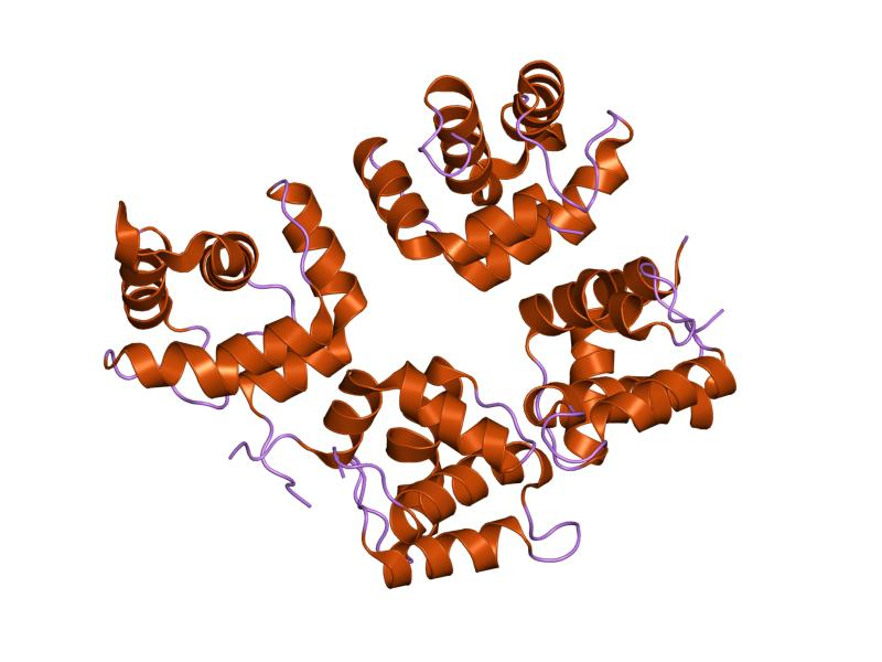 Cartoon representation of the molecular structure of protein registered with 1mn8 code.